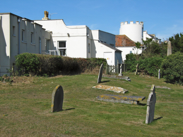 St Andrews Churchyard, Burnham-on-Sea